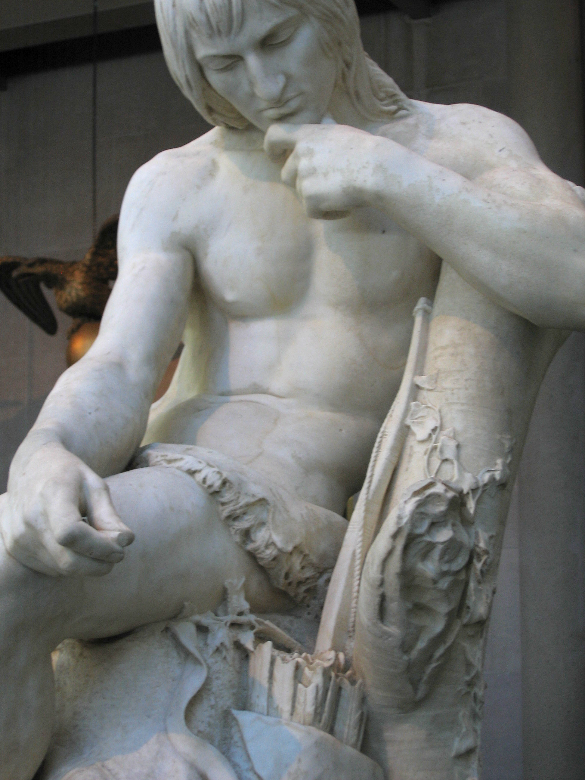 Hiawatha (detail), 1872. Augustus Saint-Gaudens (1848 - 1907). Marble, Metropolitan Museum of Art, New York City.